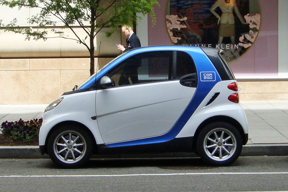 Smart fortwo from Car2Go carsharing service at downtown Washington, D.C.